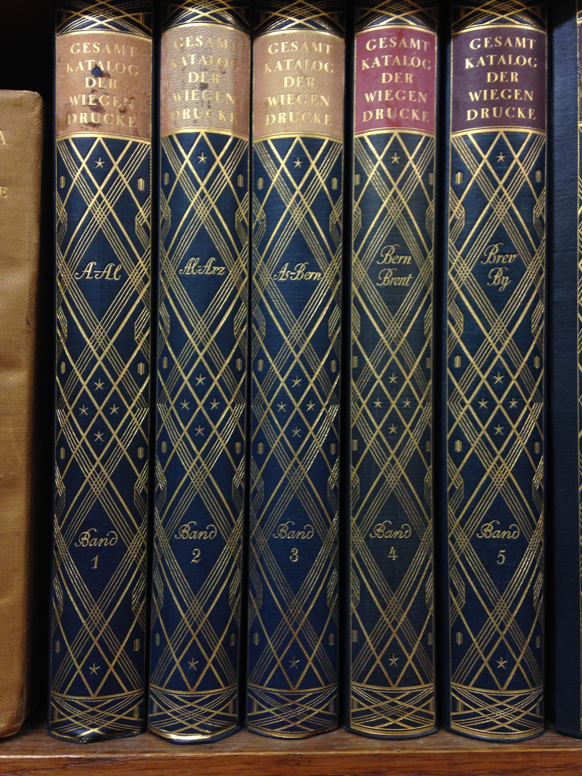 The spines of the first five volumes of the Gesamtkatalog der Wiegendrucke